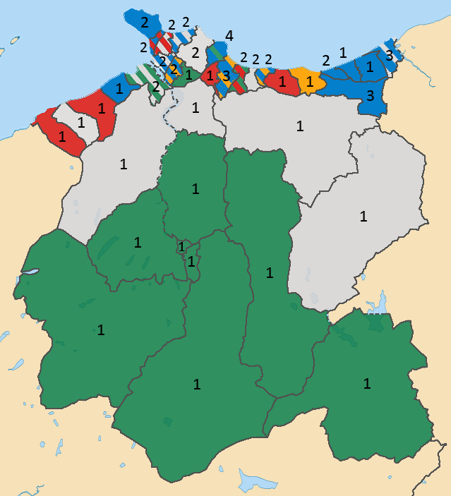 Results of the Conwy County Borough Council election, May 2008, indicating numbers of councillors per ward and their party affiliations Colours: Conservative Plaid Cymru Labour Liberal Democrat Independent Striped wards have mixed representation.